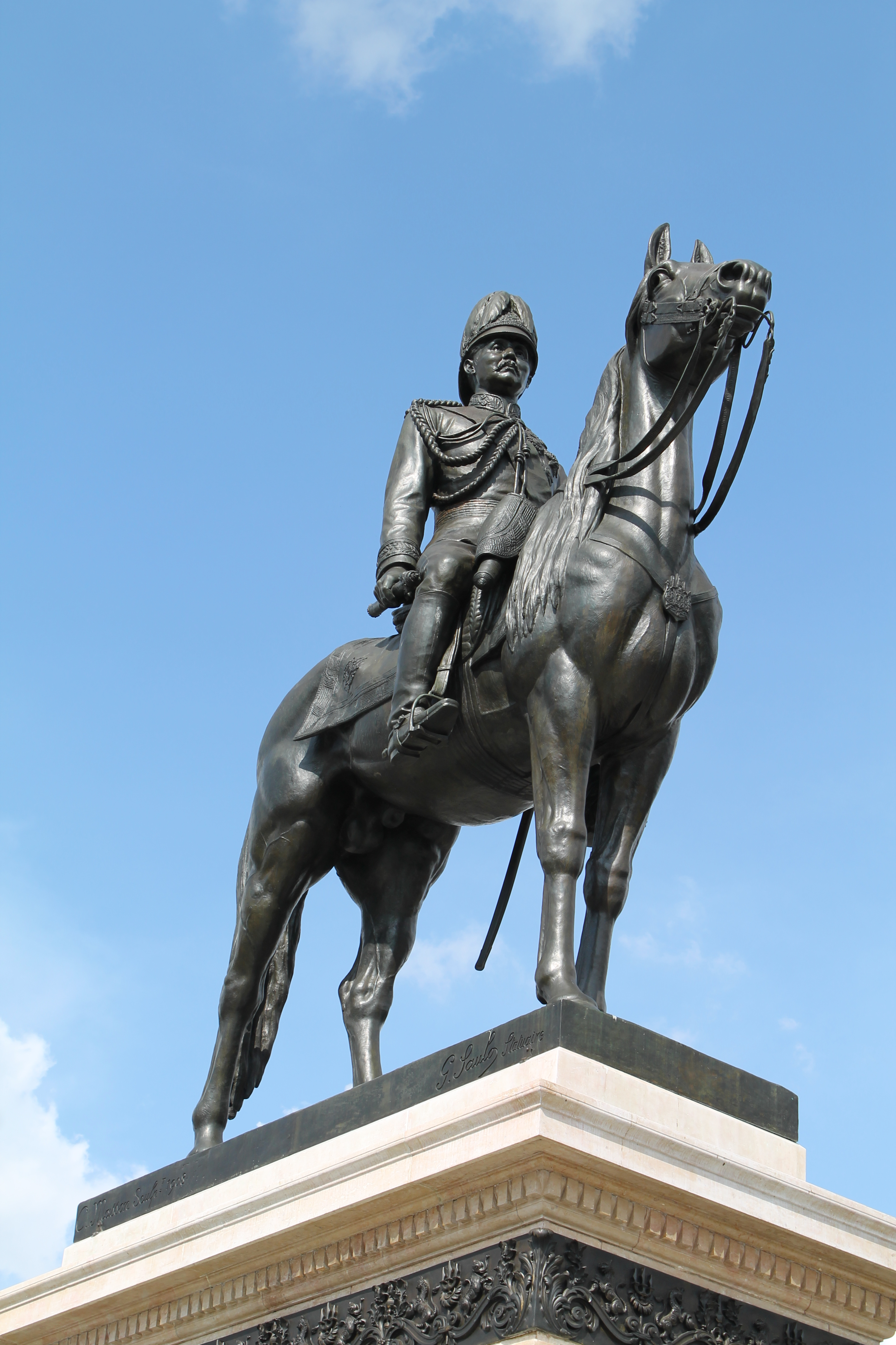 The Equestrian Statue of King Chulalongkorn Rama V the Great